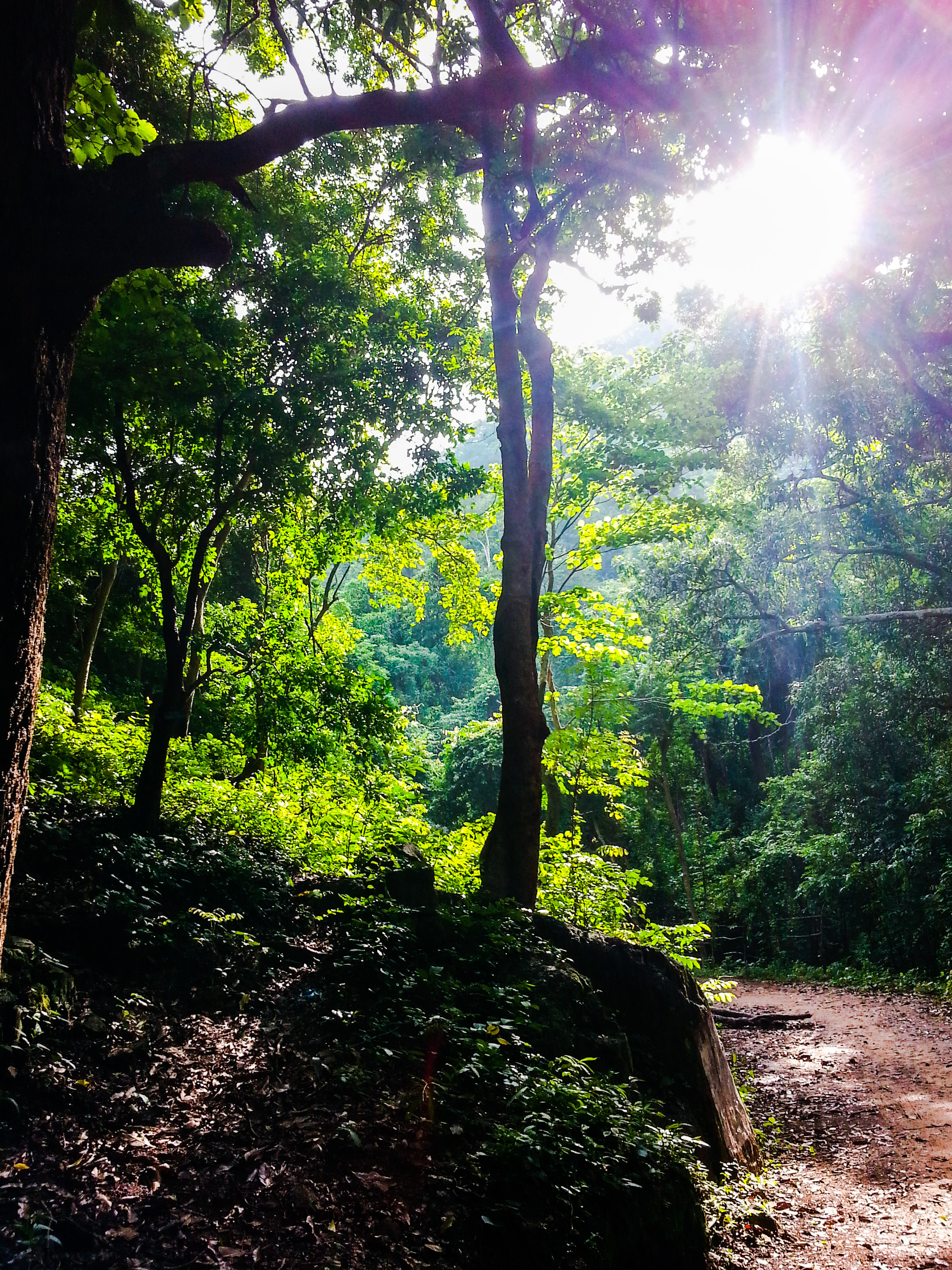 This is a path to Rampachodavaram waterfalls.There is a dense tree cover that forms the skyline.The trees are the skyscrapers of the forest.This place is home to the tallest mango trees in the world.